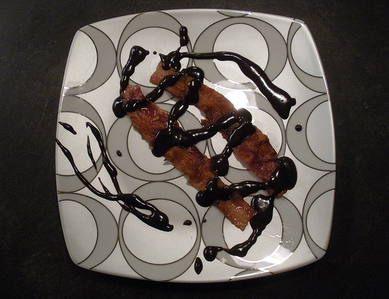 Trying my hand at making chocolate bacon.